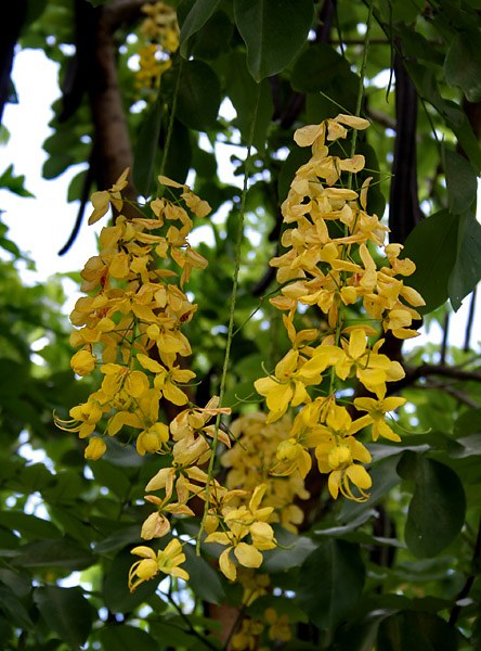 Amaltas Cassia fistula in Hyderabad , India.